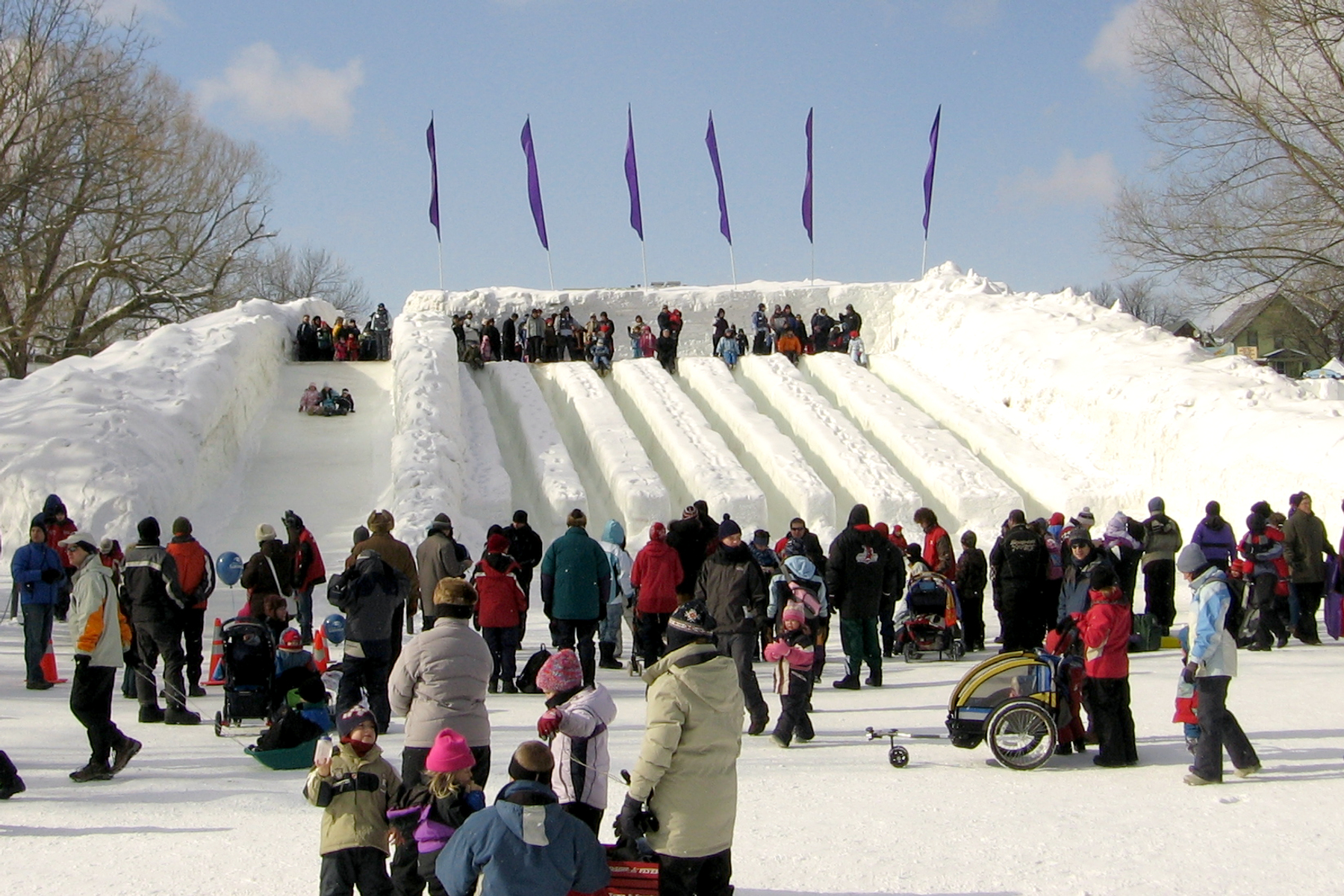 Shot at Winterlude in Ottawa.